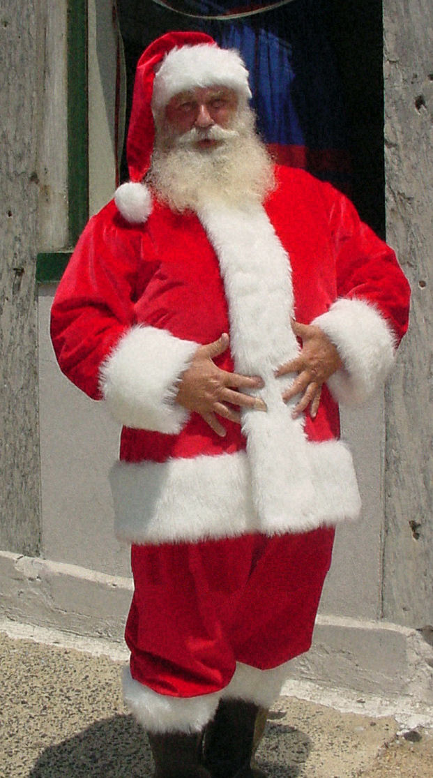 Custom Santa Suit